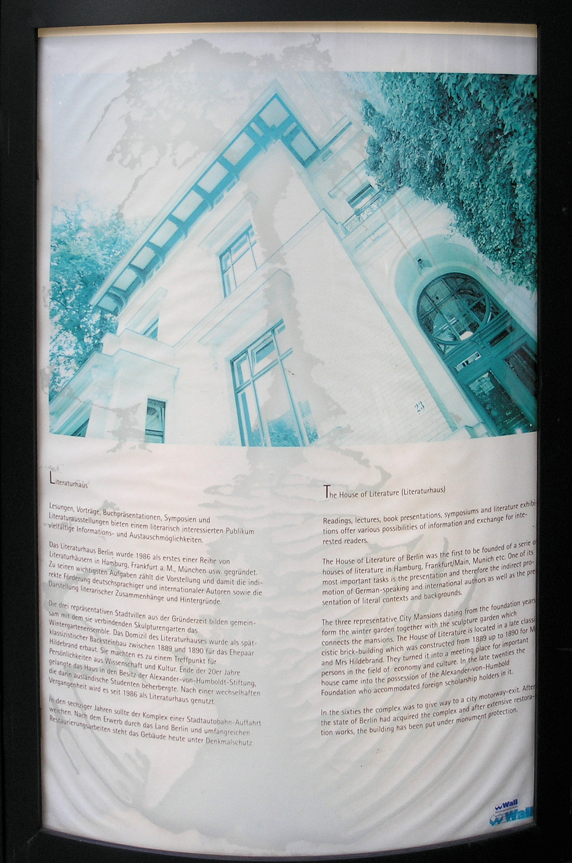 Memorial stele, Literaturhaus, Fasanenstraße 24, Berlin-Charlottenburg, Germany Koordinate:52°30′6″N 13°19′38″E / 52.50167°N 13.32722°E